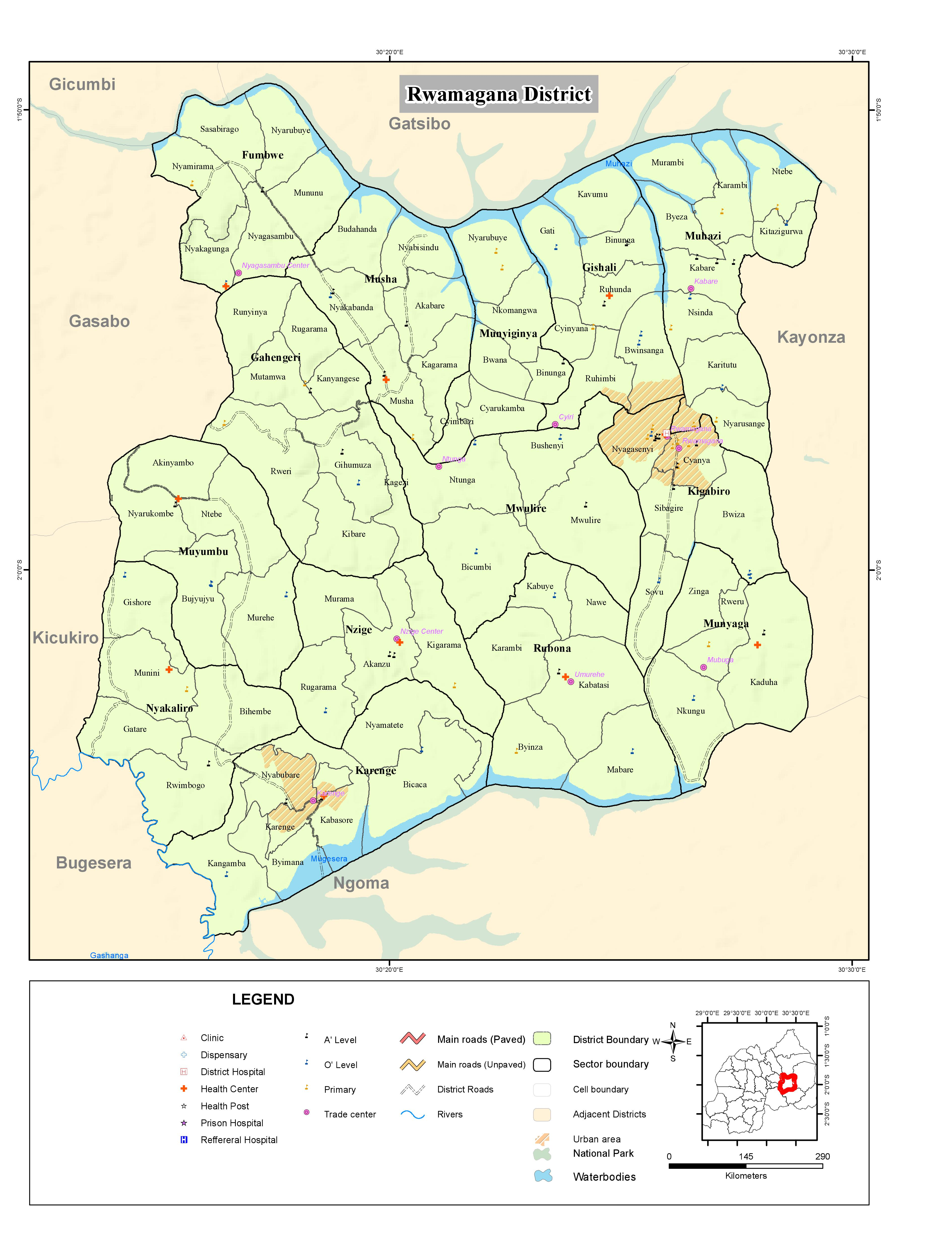 Map of Rwamagana district Rwanda